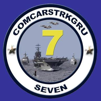 Commander Carrier Strike Group Seven (ComCarSrkGru 7) emblem.